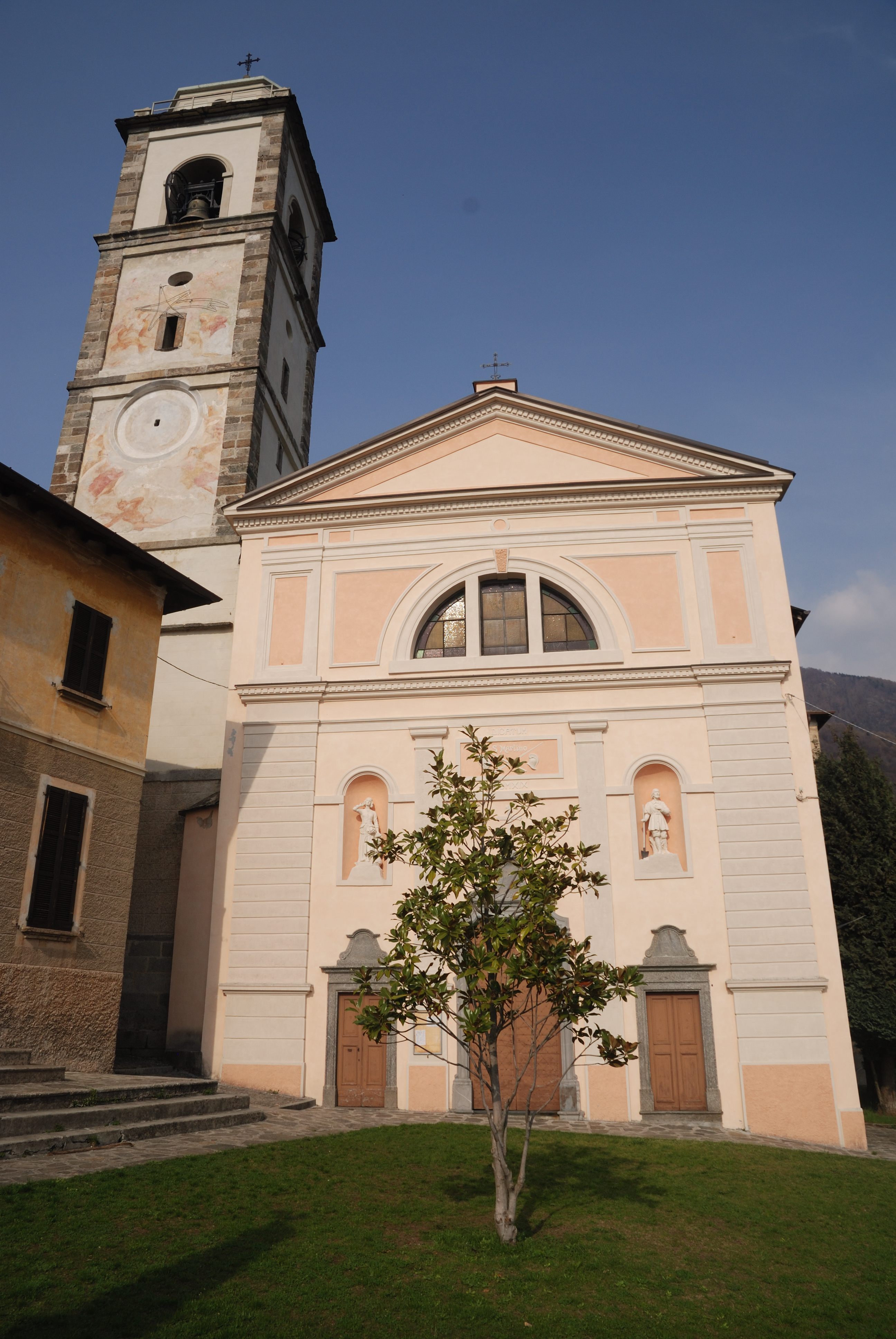 Parish of St. Martino in Sueglio